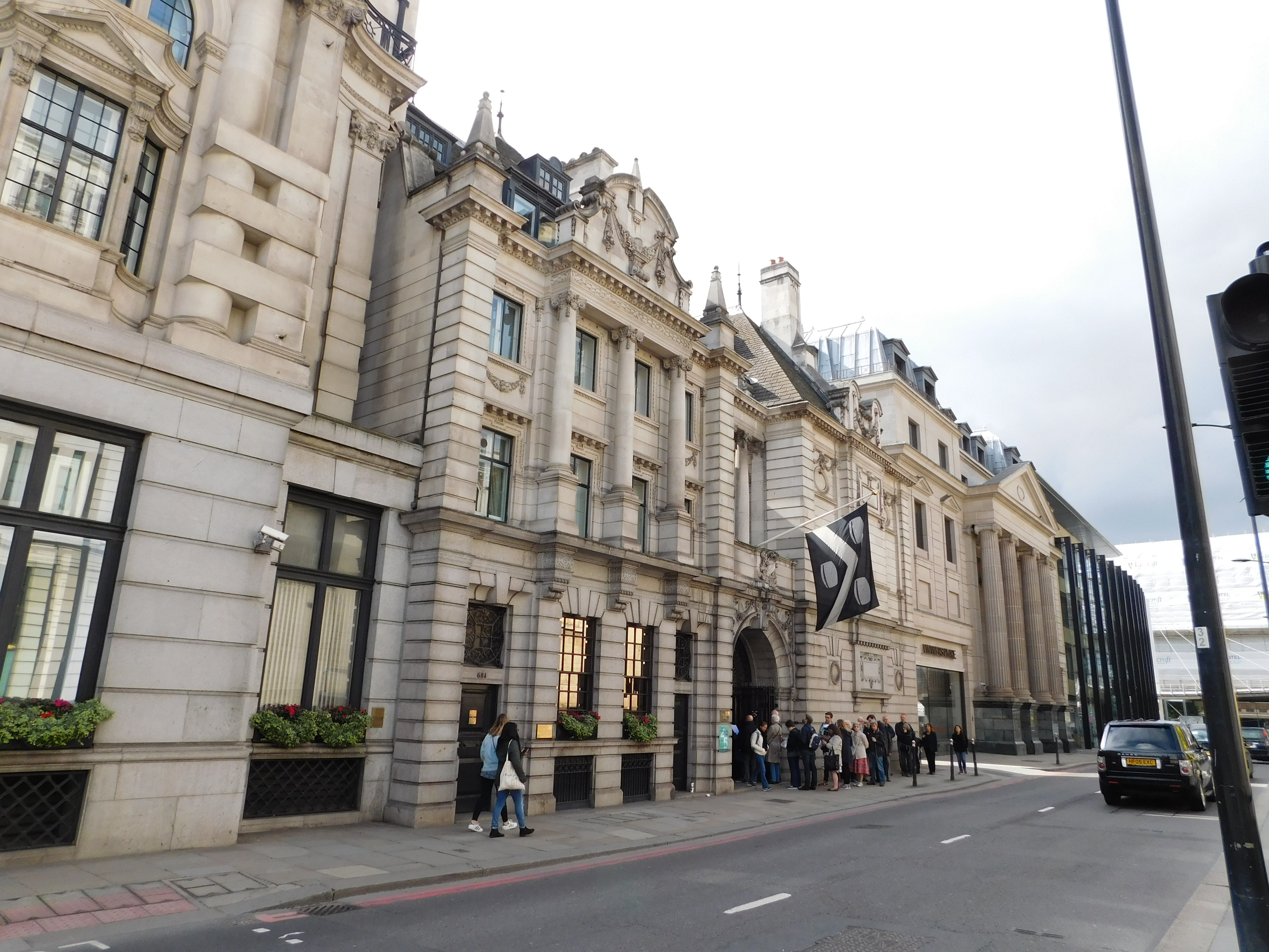 Vintners' Hall Wikidata has entry Q17526875 with data related to this item.